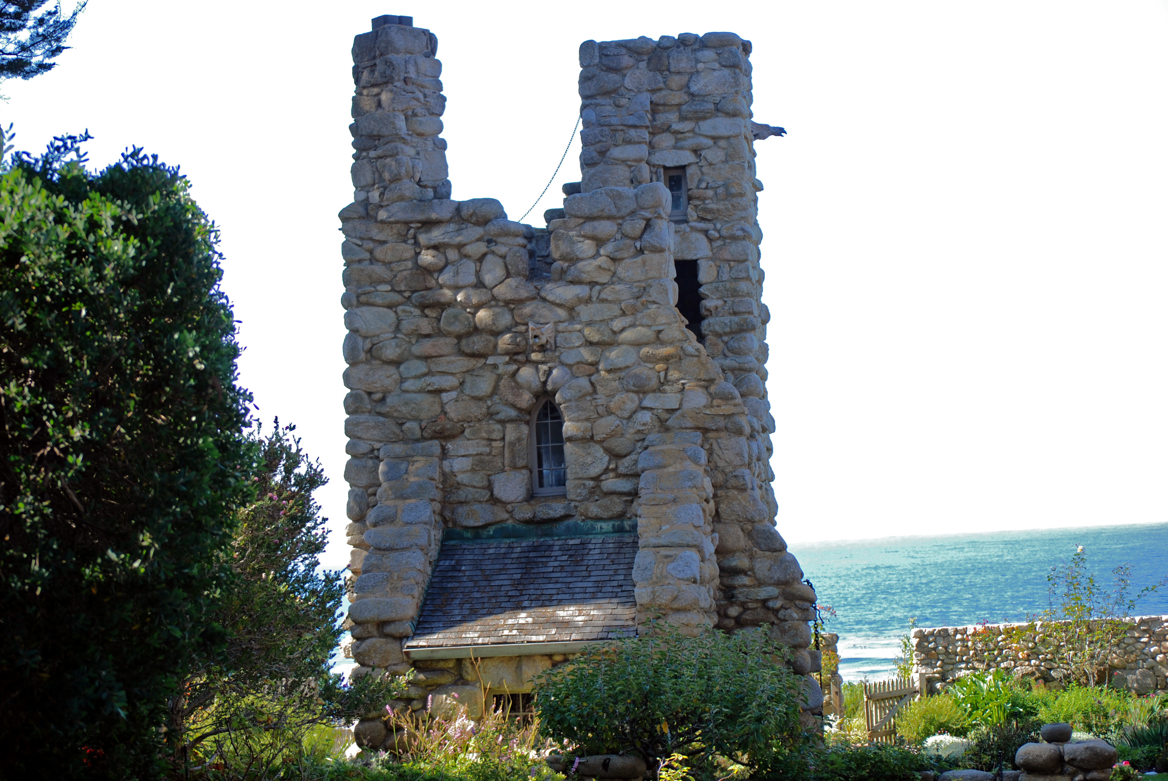 Robinson Jeffers Tor House